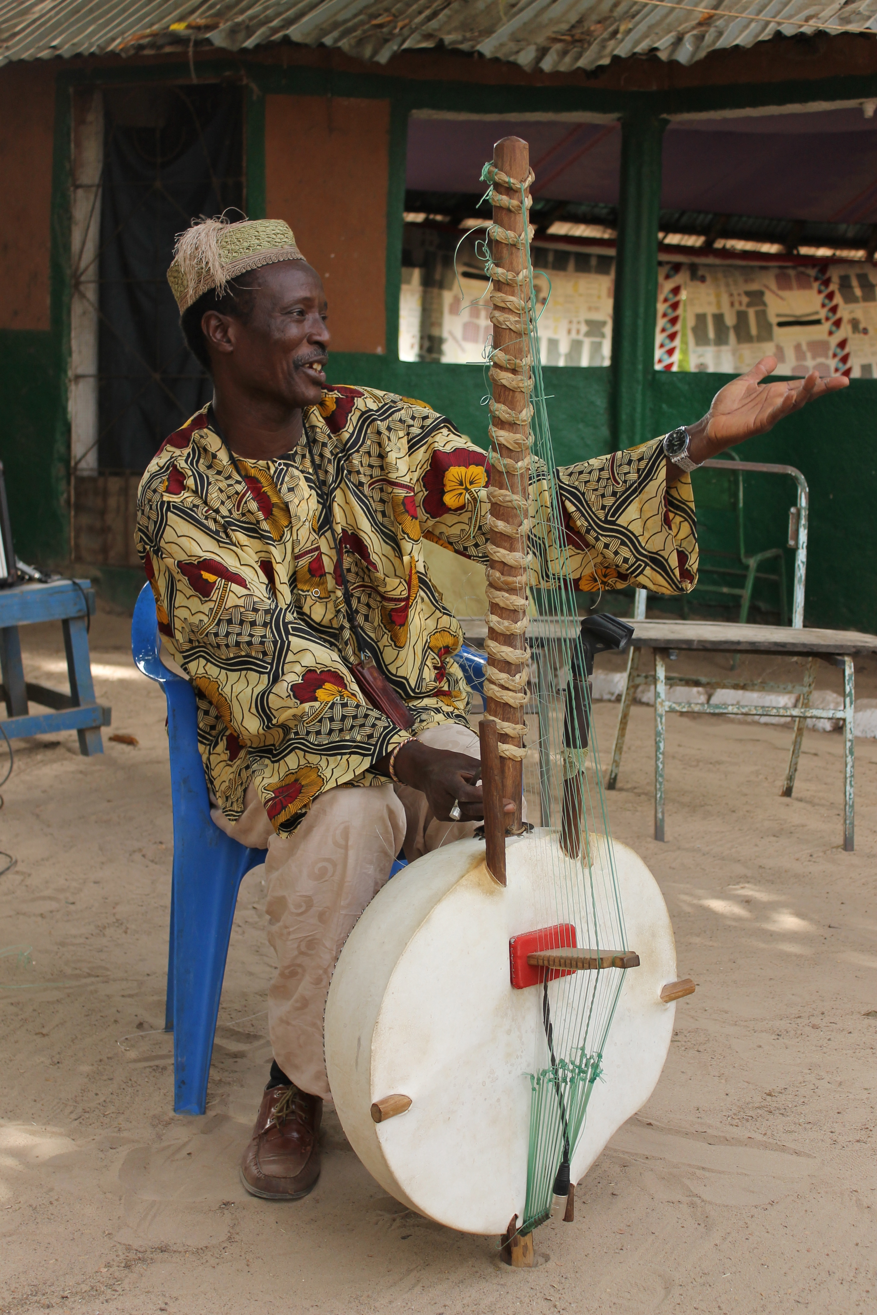 Gambian jaliba, music master, Mamadou.